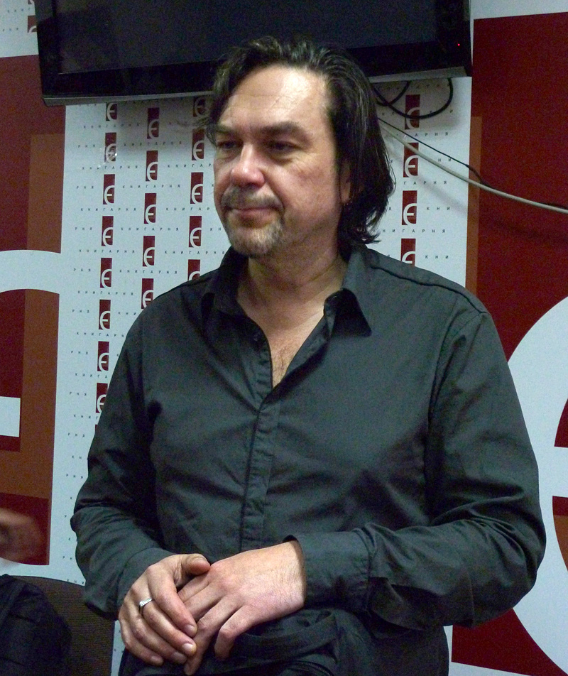 Yuri Andruchovych is lecturing in Lviv